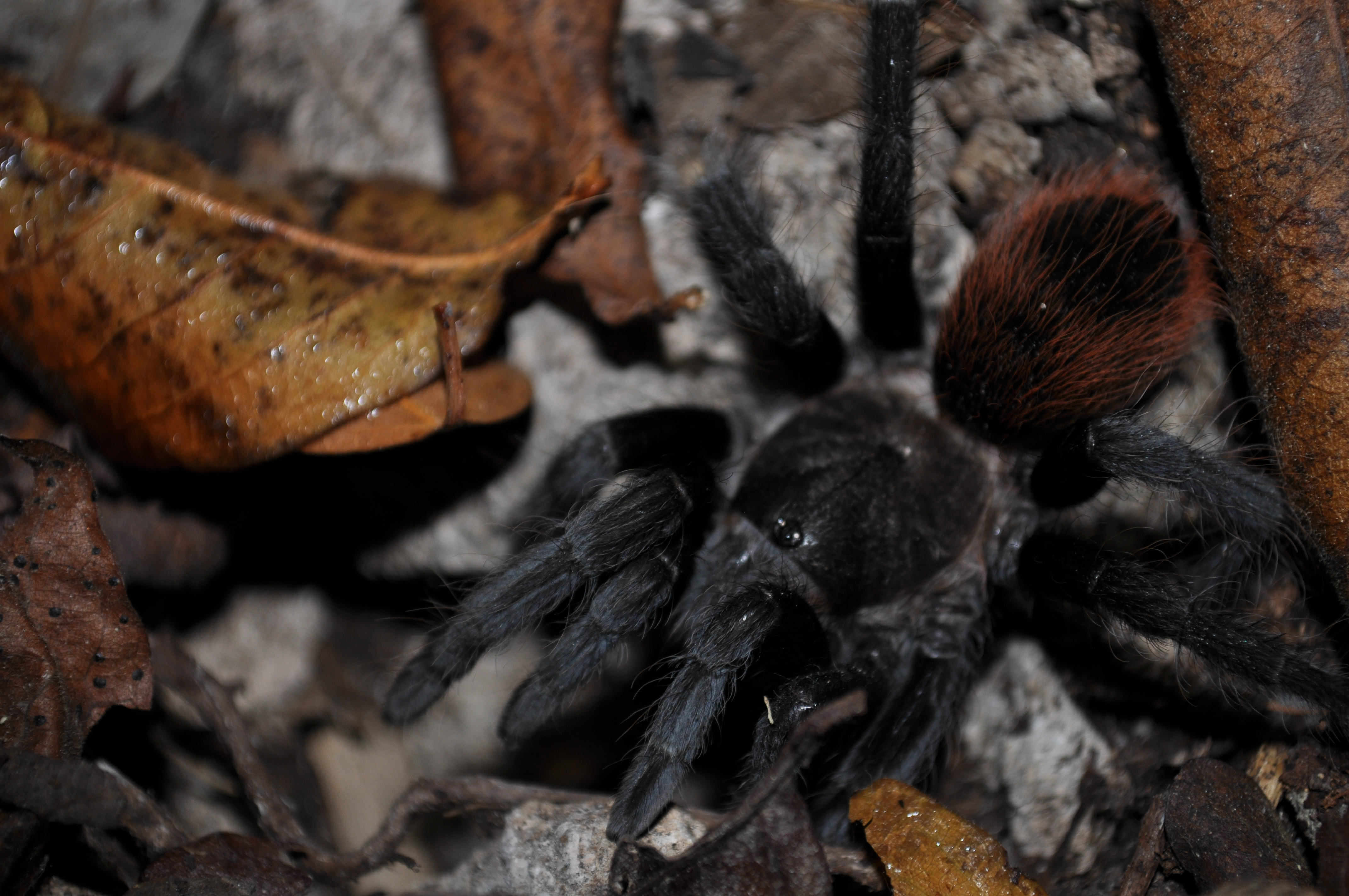 Mexican Redrump (Brachypelma vagans) Merida, Yucatan, Mexico Found this one hiding under a rock. These are a protected species due to their population decline because of excessive collecting for pet trade.